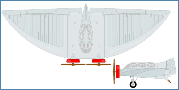 Tchvsky BITch 14